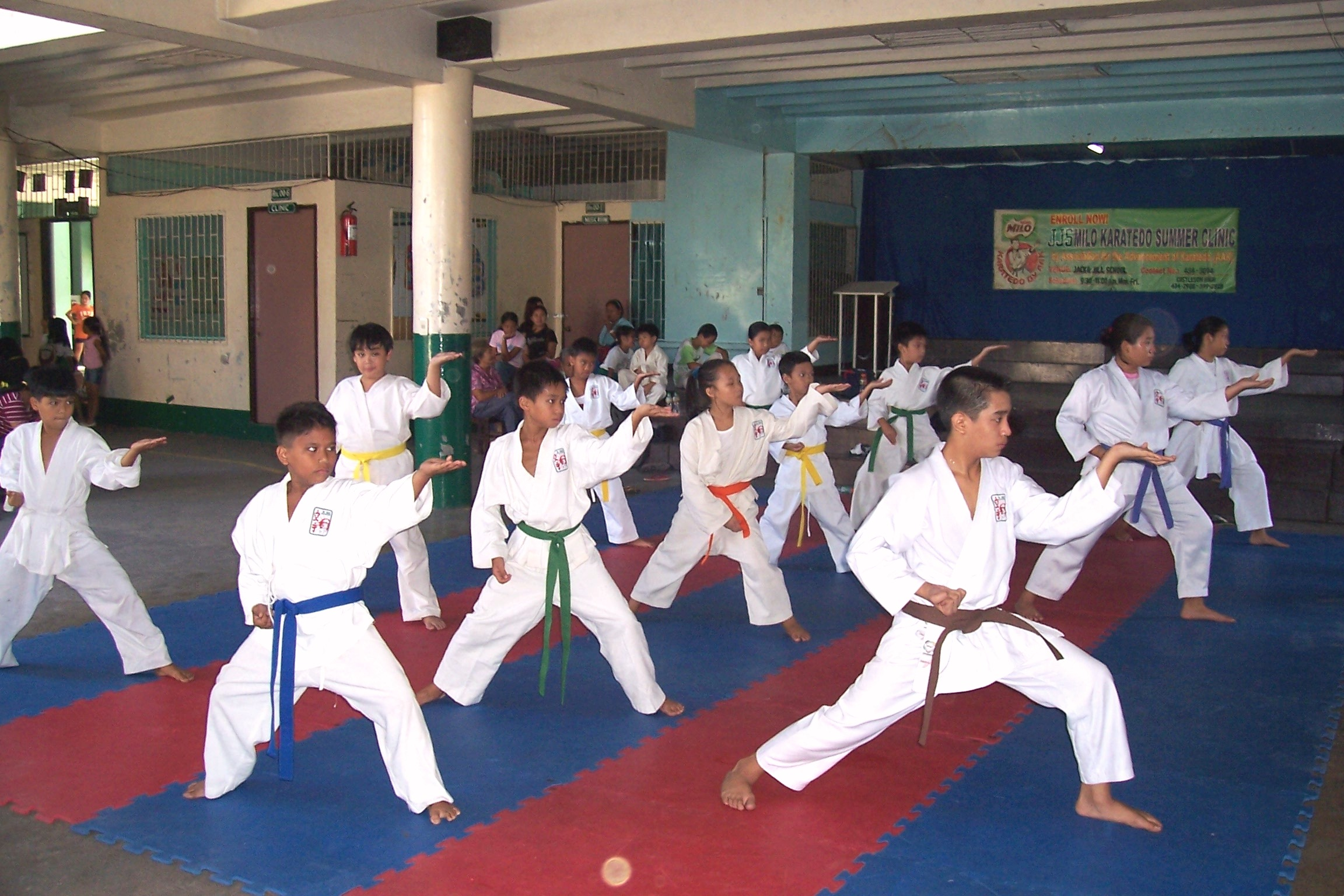 Children practising karate in the dojo of the Jack and Jill School in Bacolod City, Philippines.